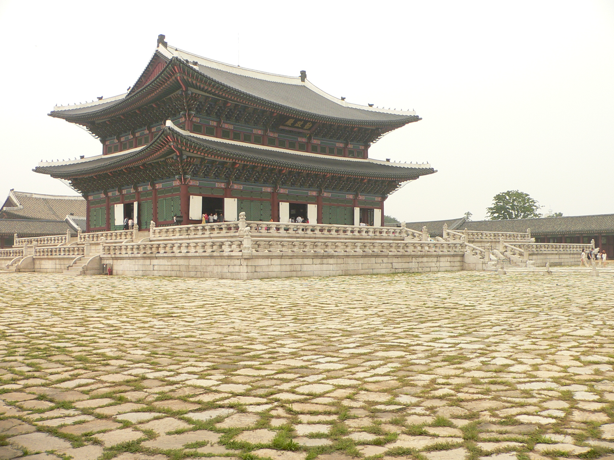 King's throne room(Keun Jeong Jeon) in Gyeongbokgung